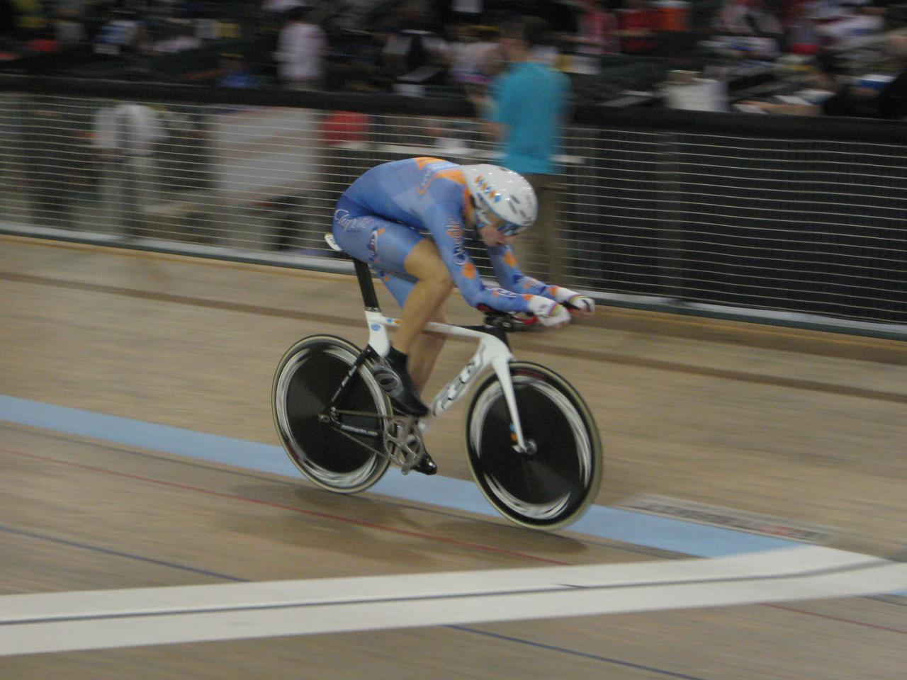 Taylor Phinney in pursuit qualifying - World Cup, Los Angeles, 18 Jan 2008. He was in the 11th of 12 pairings, and set the fastest time so far. One rider in the last pair set a faster time, setting the two up for the gold medal ride.